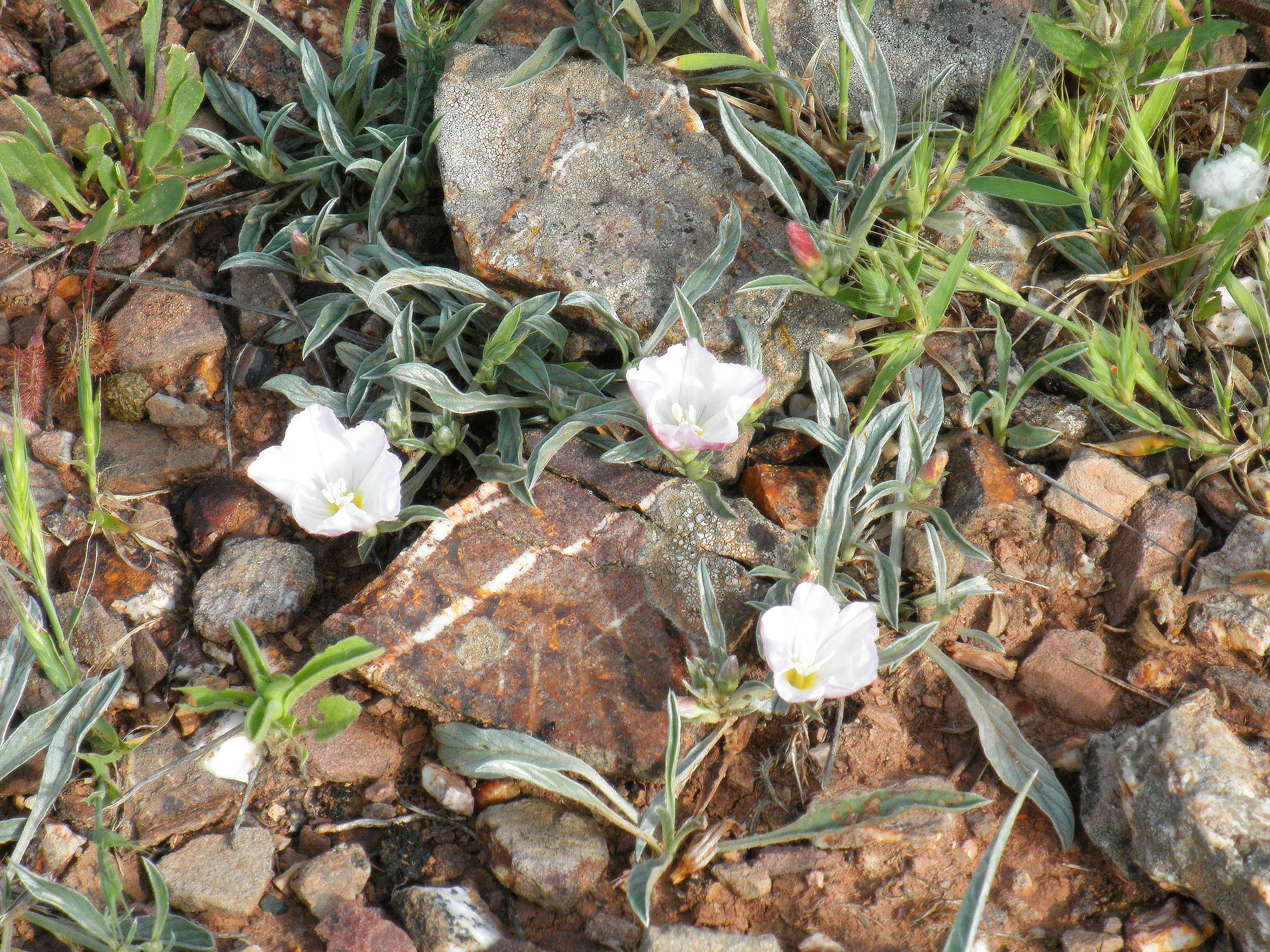 Convolvulus lineatus habit Campo de Calatrava, Spain